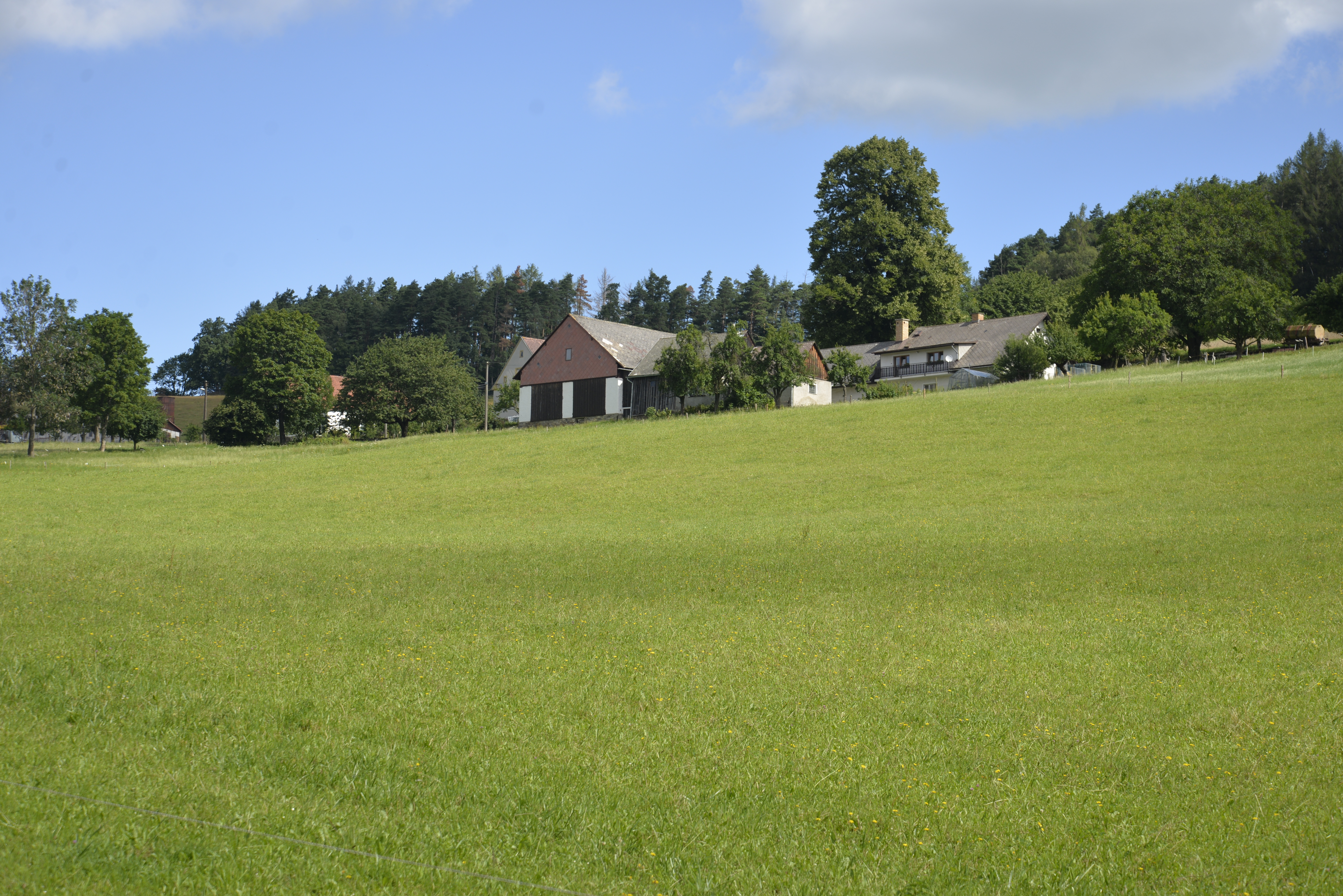 Suchá - village in Klatovy District part of Hlavňovice